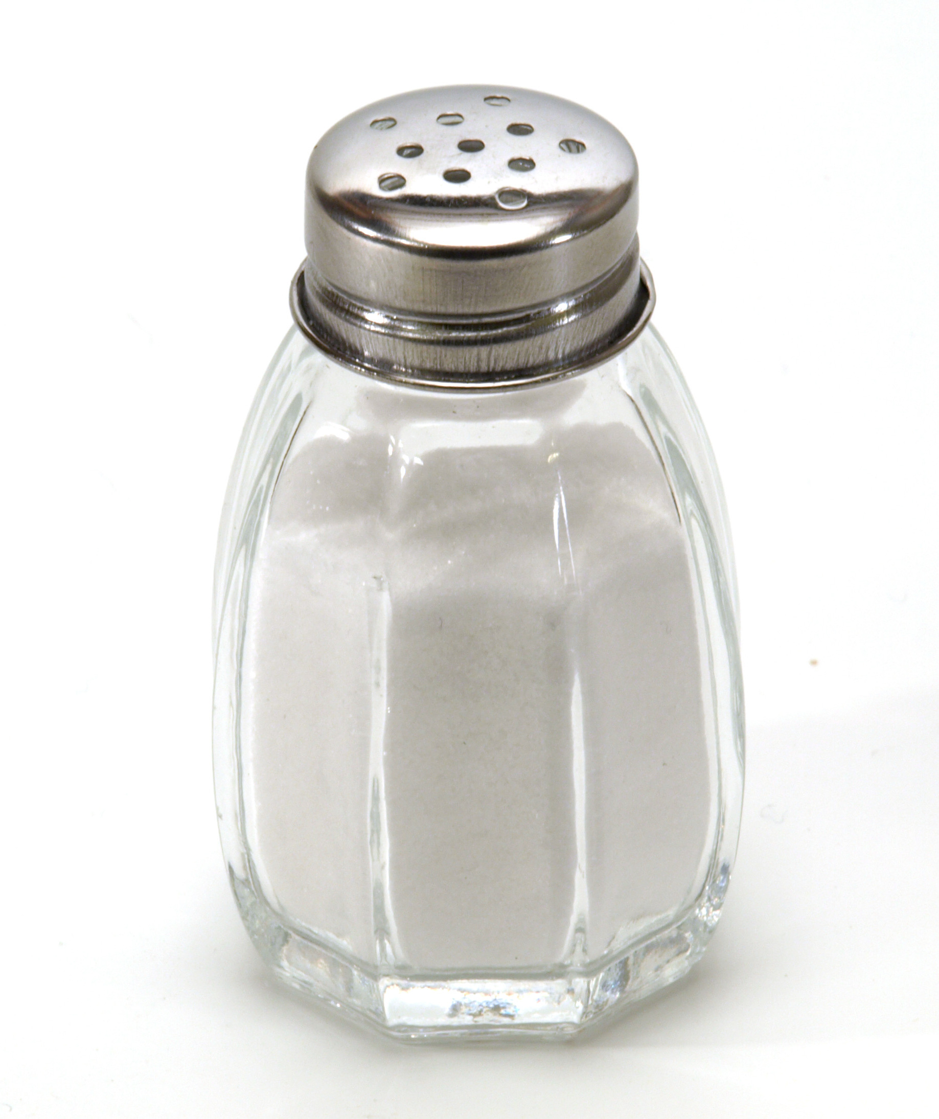 a glass salt shaker with a metal top photographed on a white background